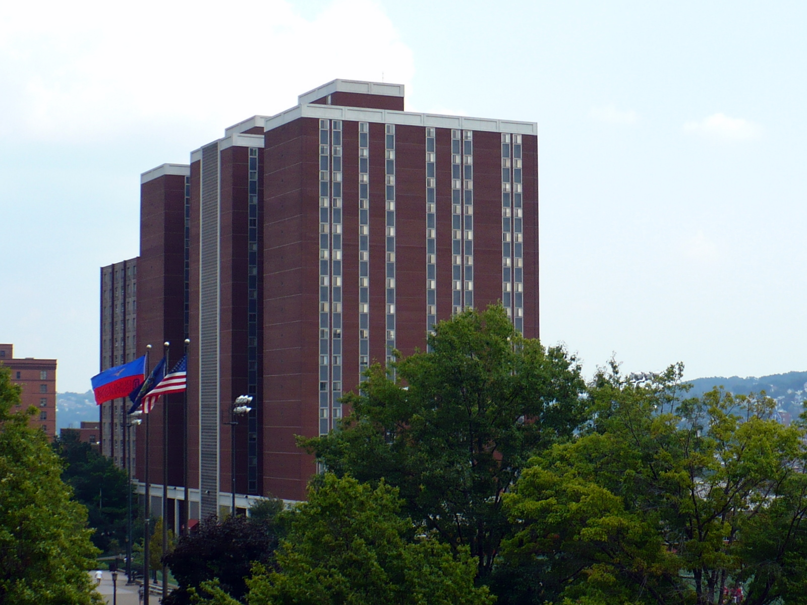 The Duquesne Towers residence hall at Duquesne University.